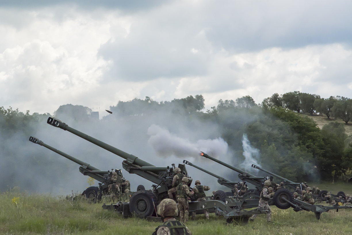 Italian Army 21st Field Artillery Regiment "Trieste" FH70 howitzer battery during an exercise